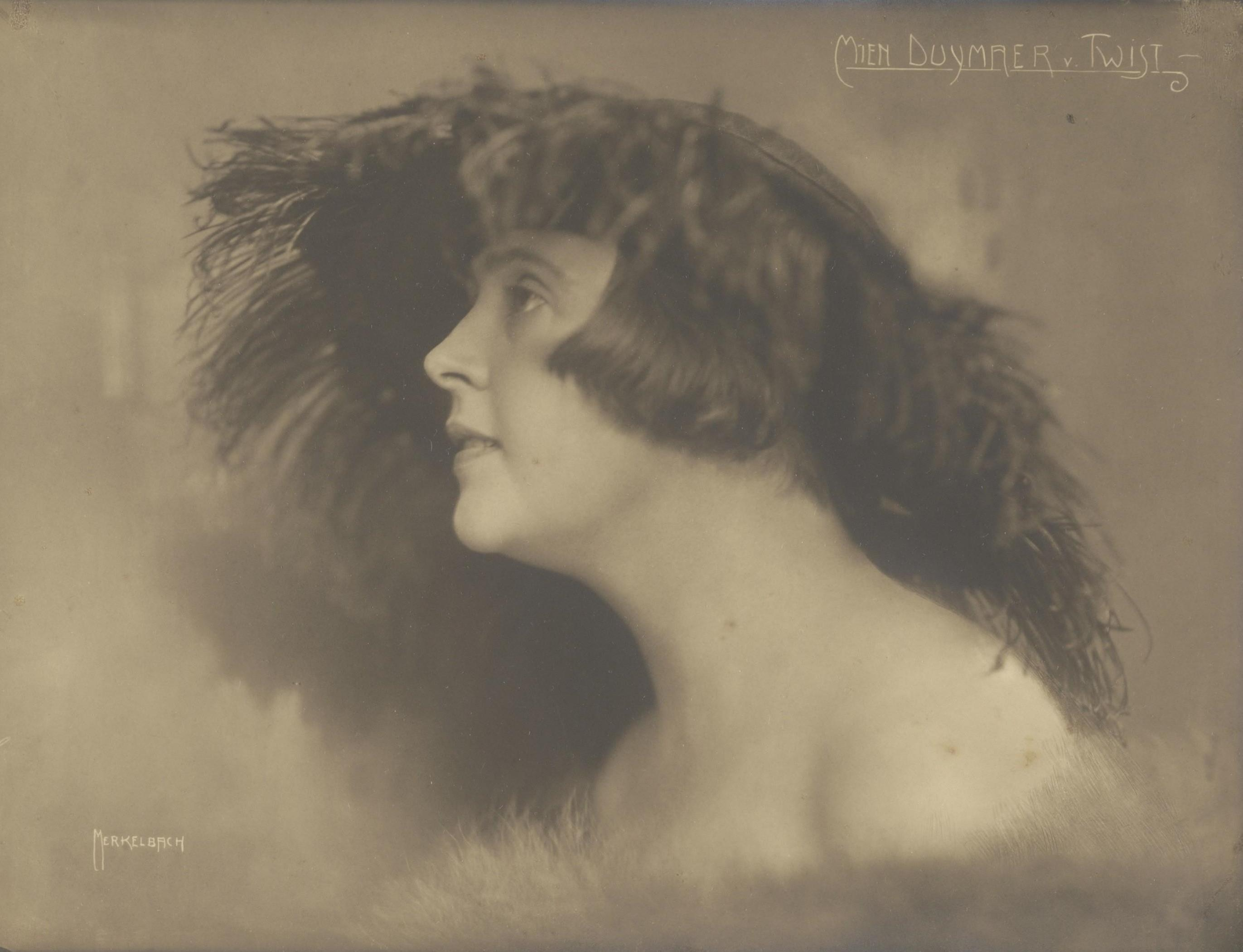 Photograph of Dutch actress Mien Duymaer van Twist (1891-1967) by Jacob Merkelbach (1877-1942), c.1918